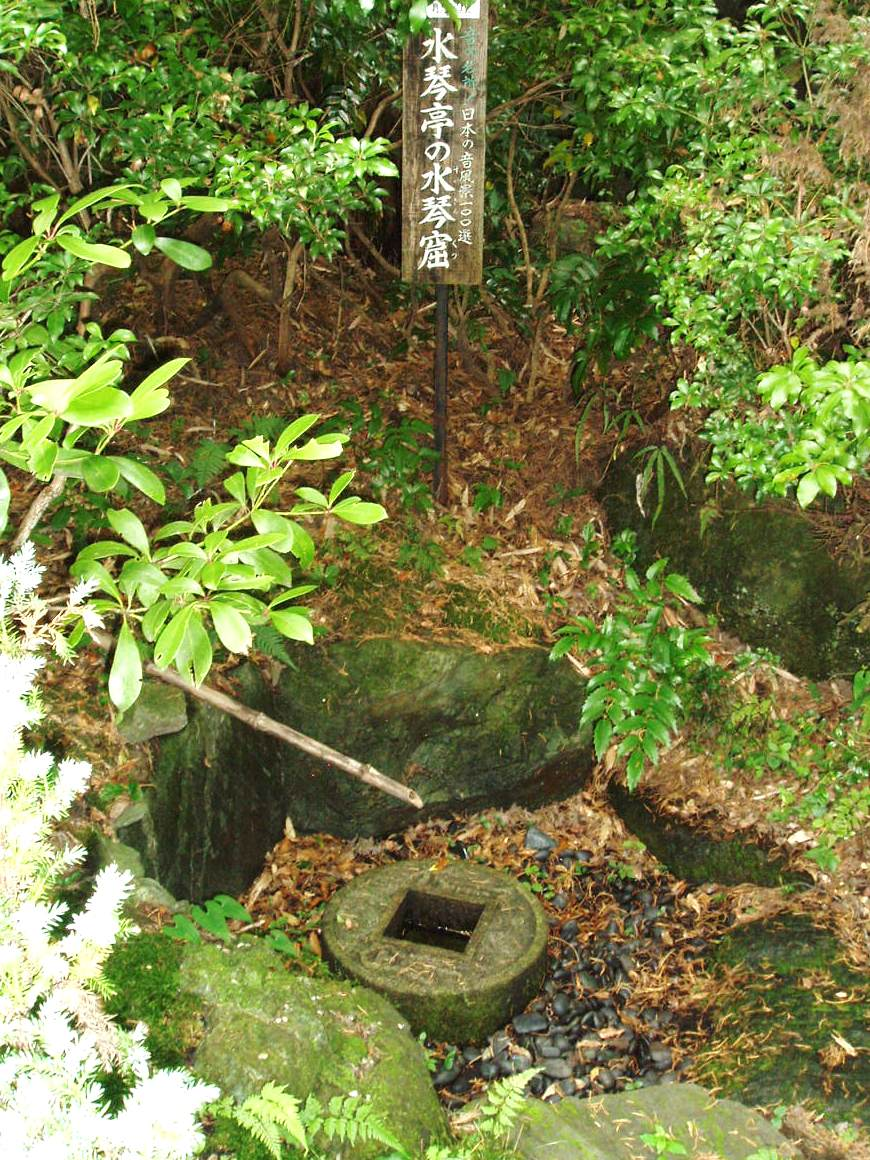 A Suikinkutsu at Nakayama Campus, the University of Creation; Art, Music & Social Work (Souzou Gakuen University), located in Takasaki, Gunma, Japan.